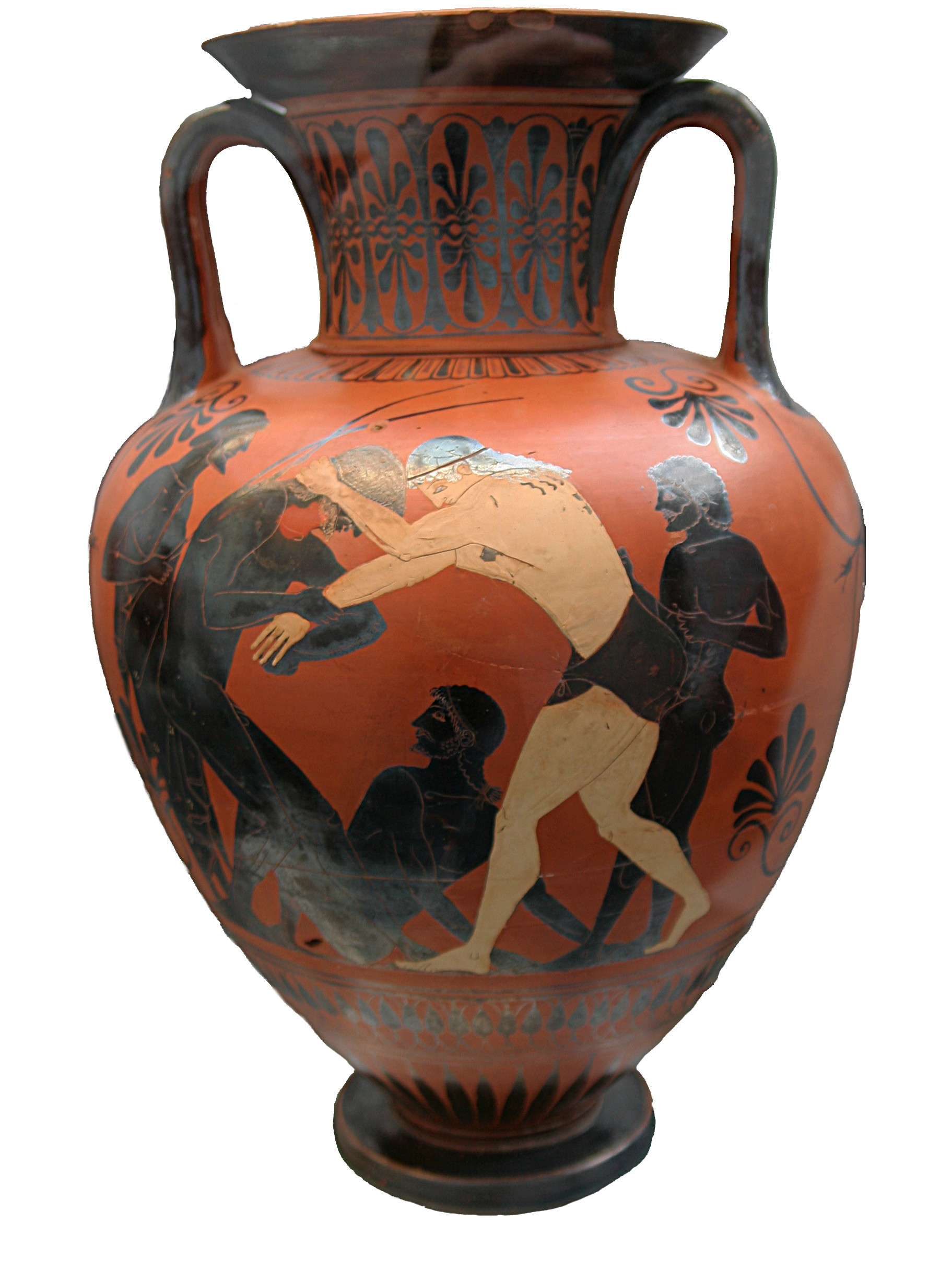 Peleus and Atalanta wrestling. Side A of an Attic black-figure neck-amphora, 500–490 BC.